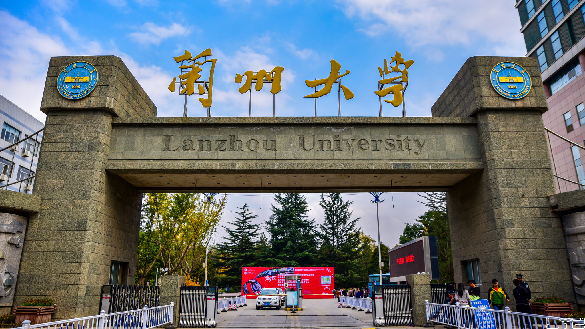 500px provided description: Lzu University [#building ,#school ,#student ,#university ,#college]